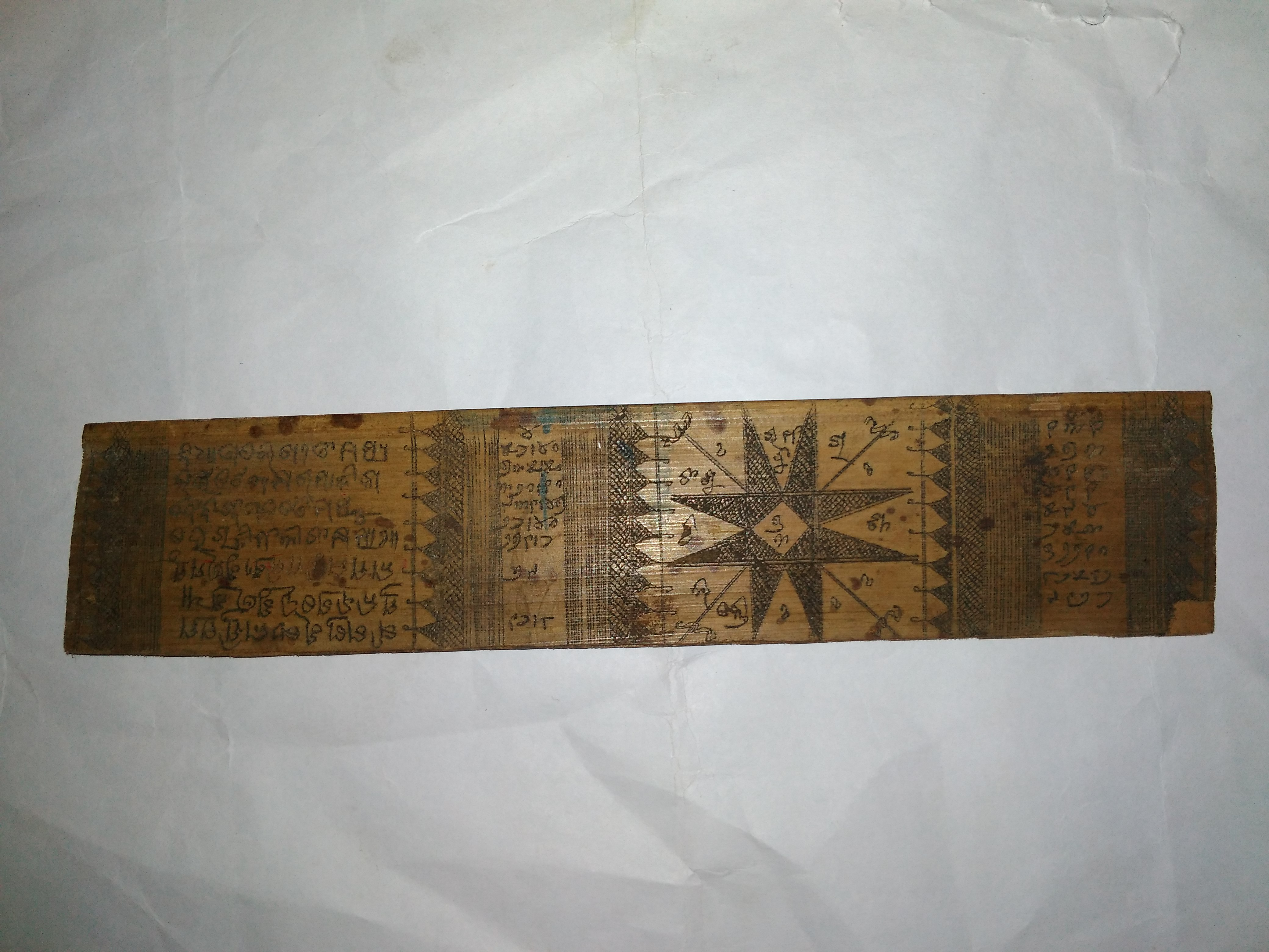 Jataka